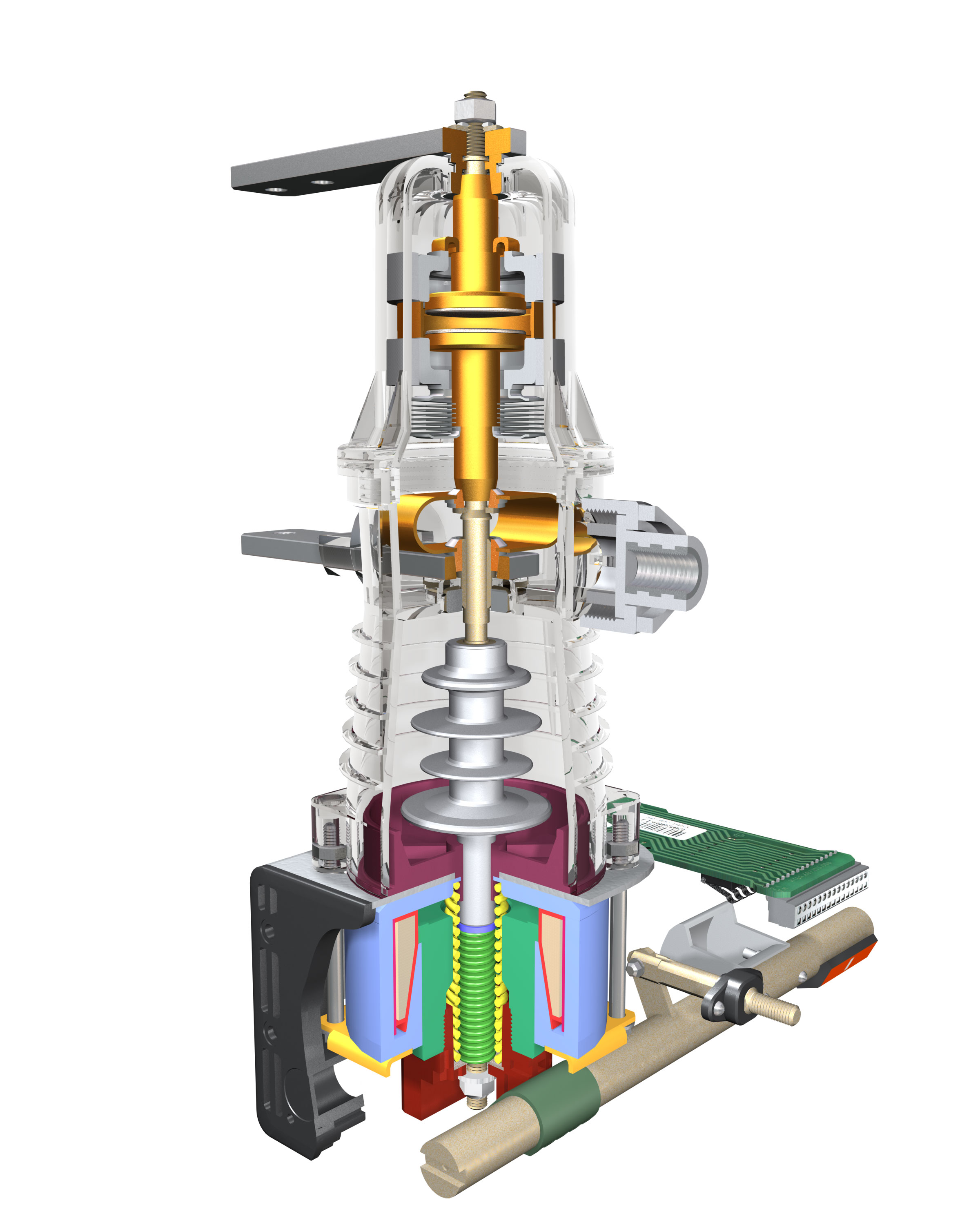 Vacuum switch in section